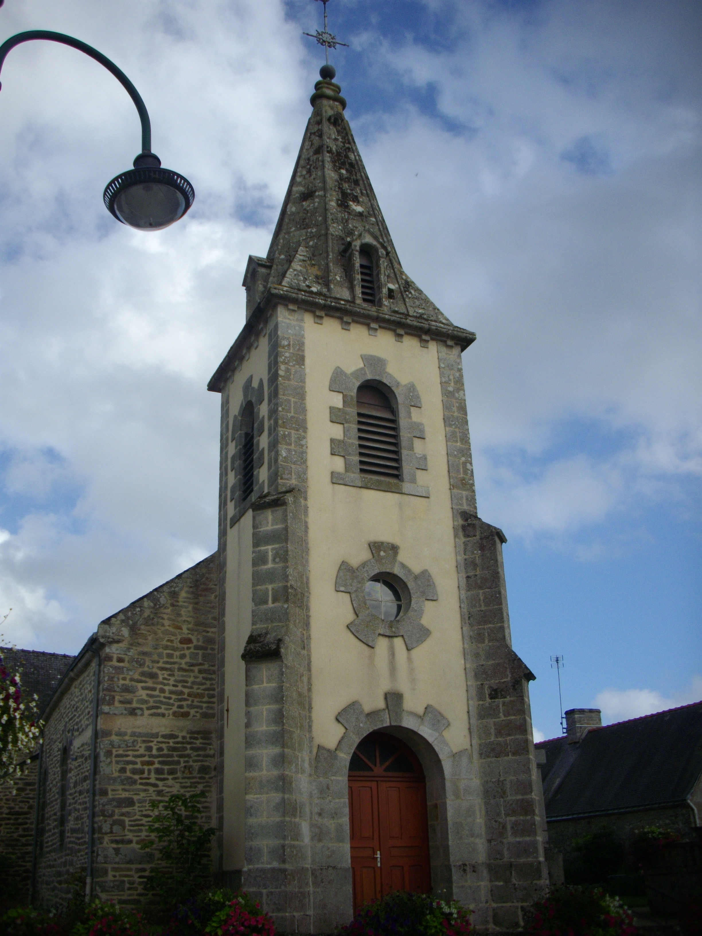 Saint Mary Magdalene church of Meucon (Morbihan, France)